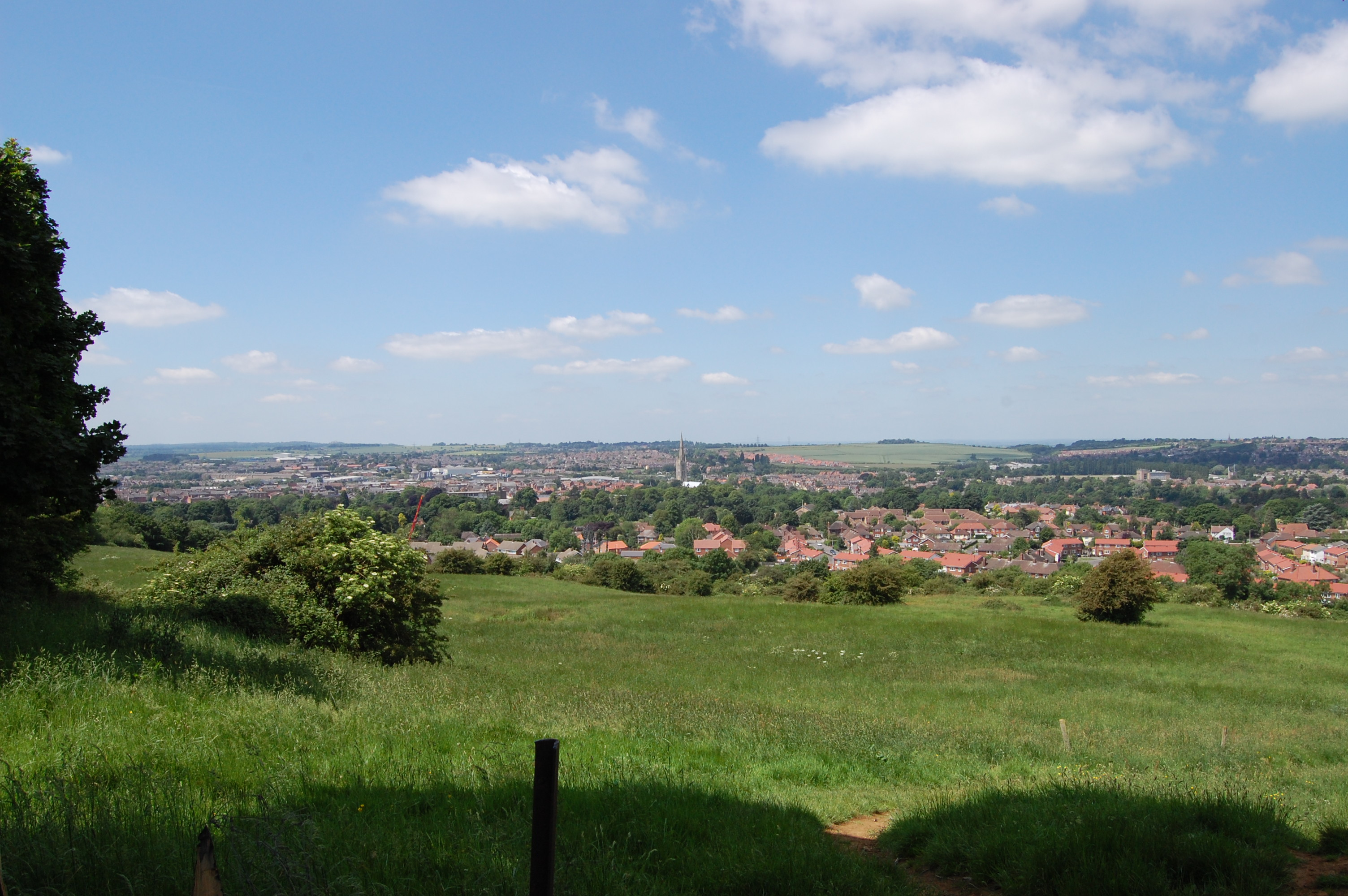 Grantham town centre as seen from the top of the hills and hollows with St. Wulfram's Church as the focal point.